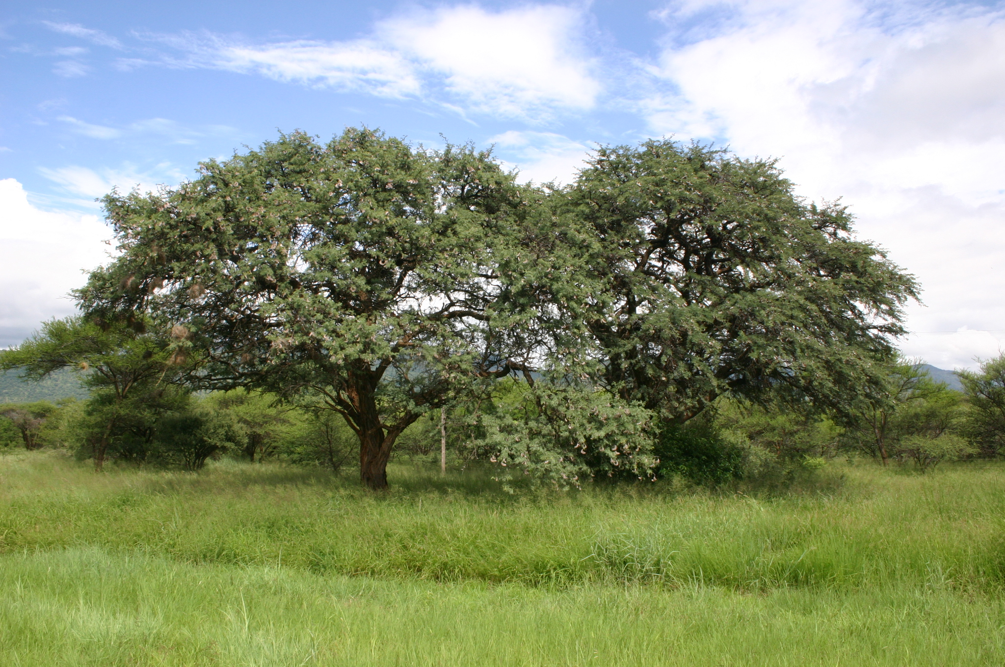 Acacia erioloba nr Potgietersrust, South Africa